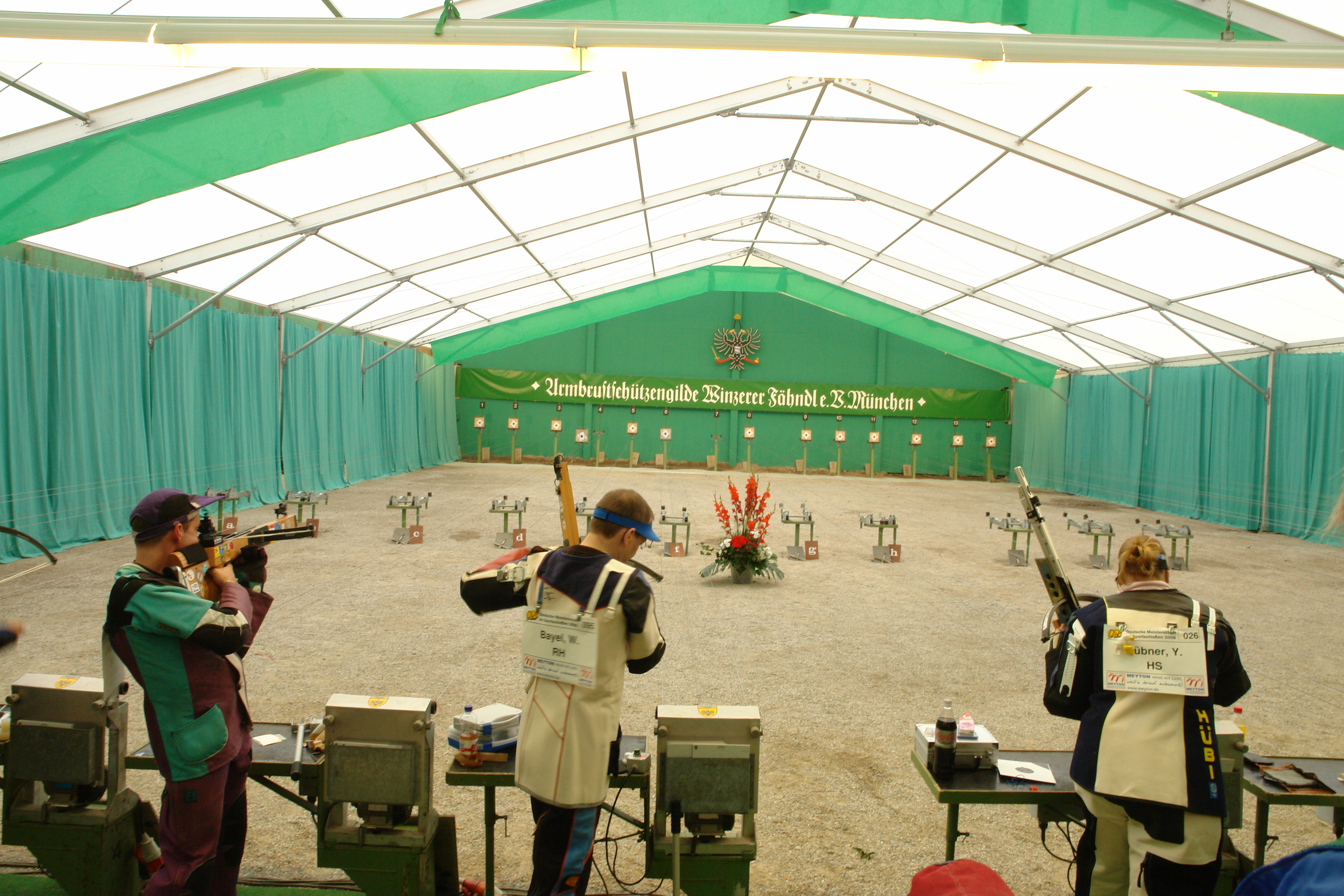 Crossbow tent of Paulaner on the Munich Octoberfest. Picture was taken during the German championships in 30m crossbow for national target.